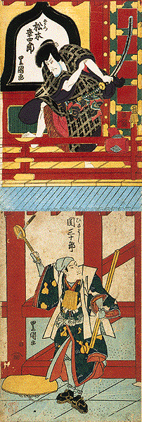 A scene from the March 1826 Edo Nakamura-za production of Sanmon Gosan-no-Kiri, with Kōshirō Matsumoto V as Ishikawa Goemon (above) and Sanjūrō Seki II as Mashiba Hisakichi, by Toyokuni Utagawa II (1786–1865)